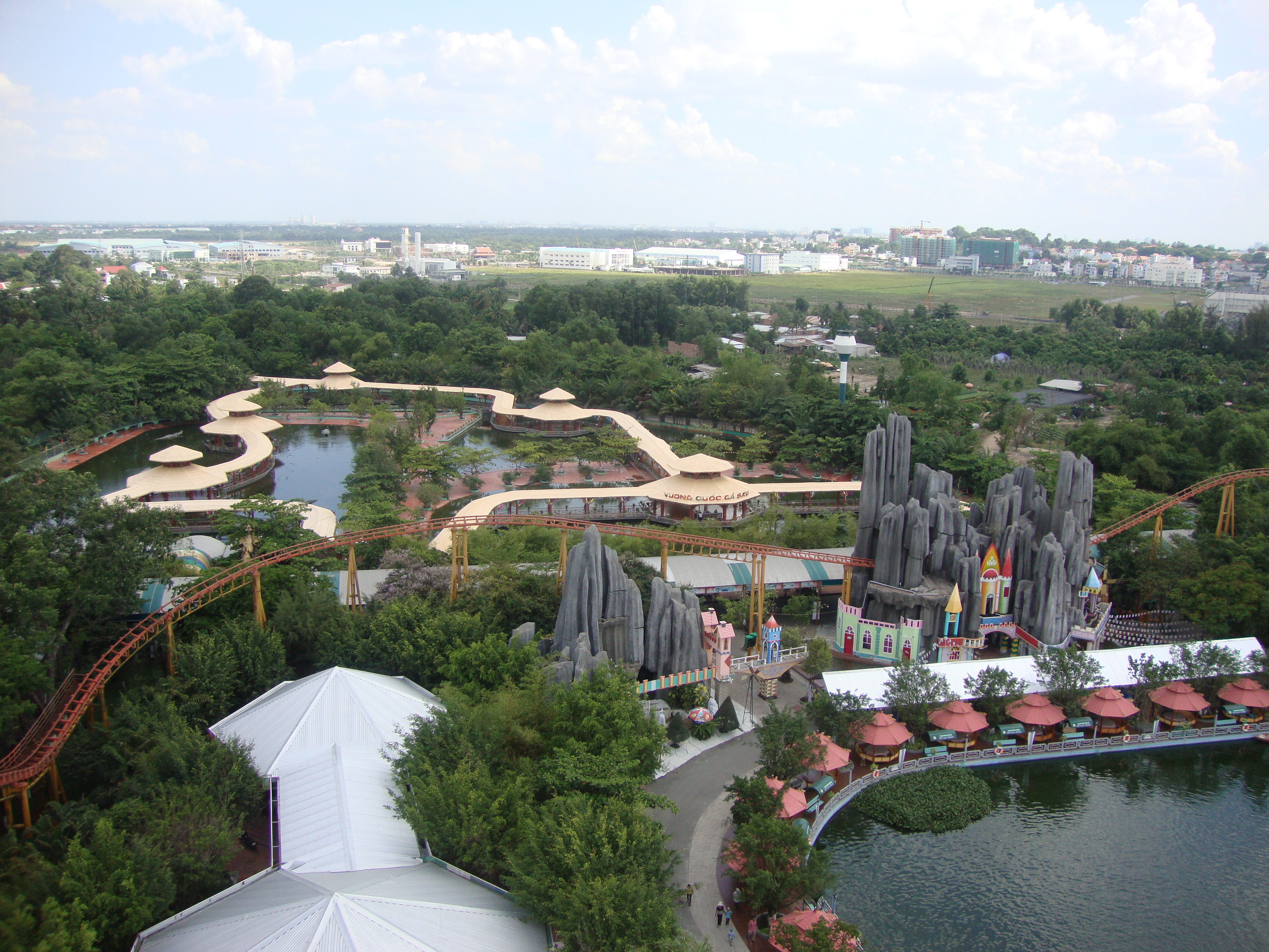 KDLVH Suối Tiên